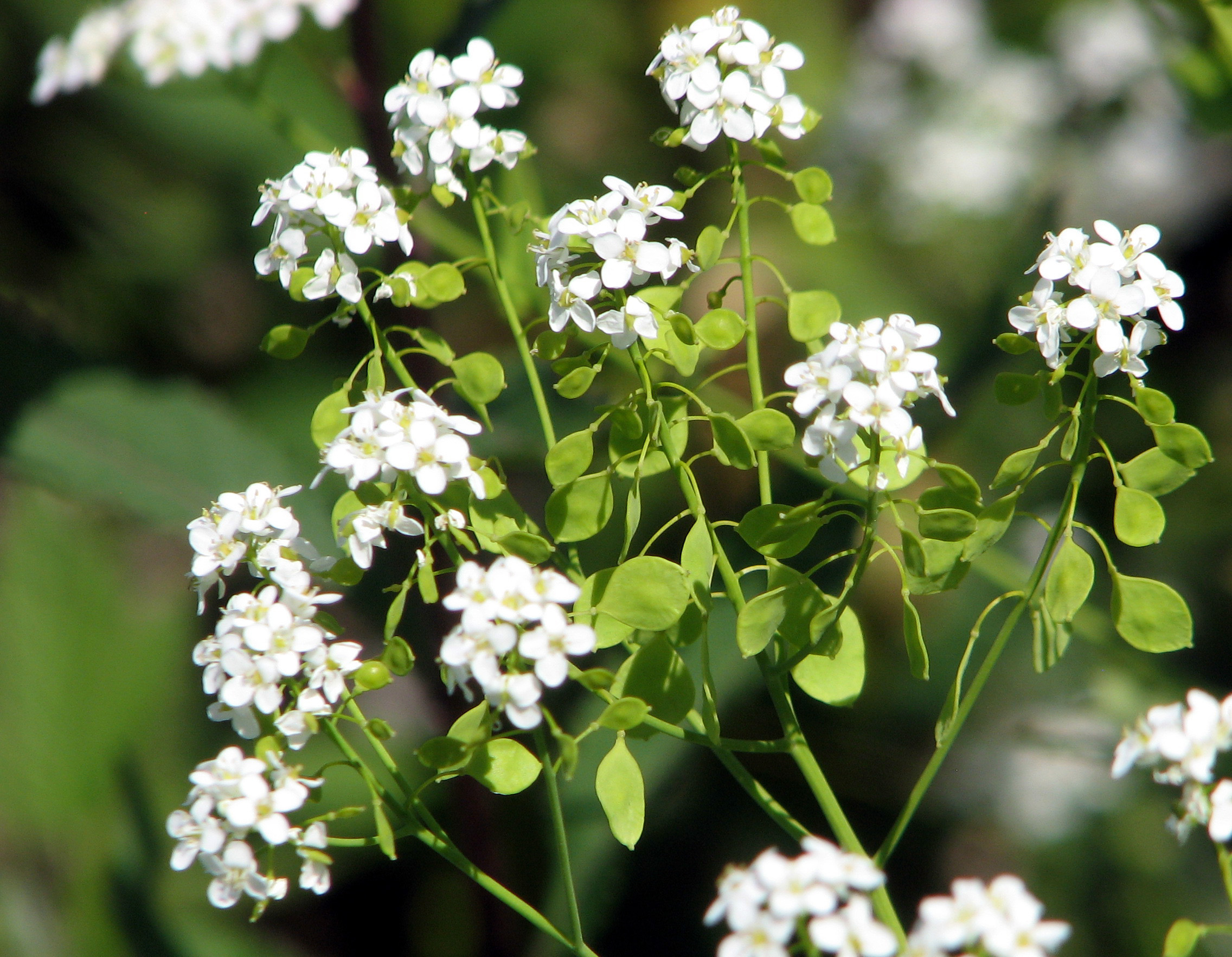 Peltaria alliacea found at Niederschoeckel near Graz (Styria), Austria